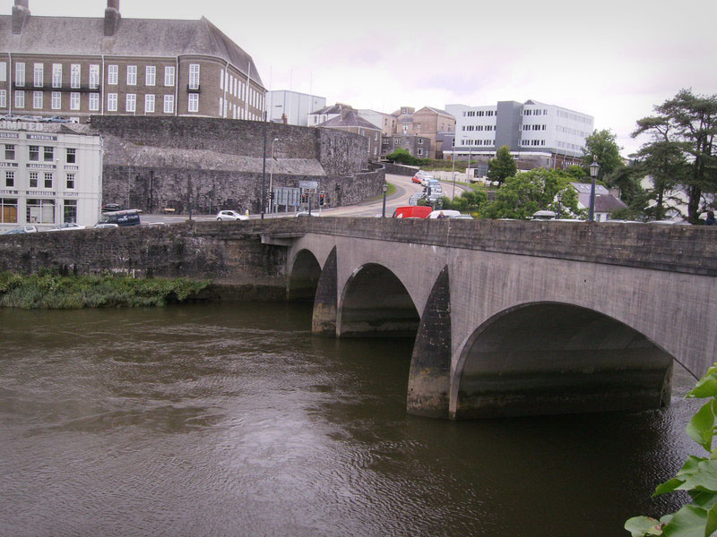 Carmarthen Bridge (by William Clough-Ellis) over River Towy, County Hall top left, Towy Works left, to centre is the impressive stone wall supporting ground below County hall.